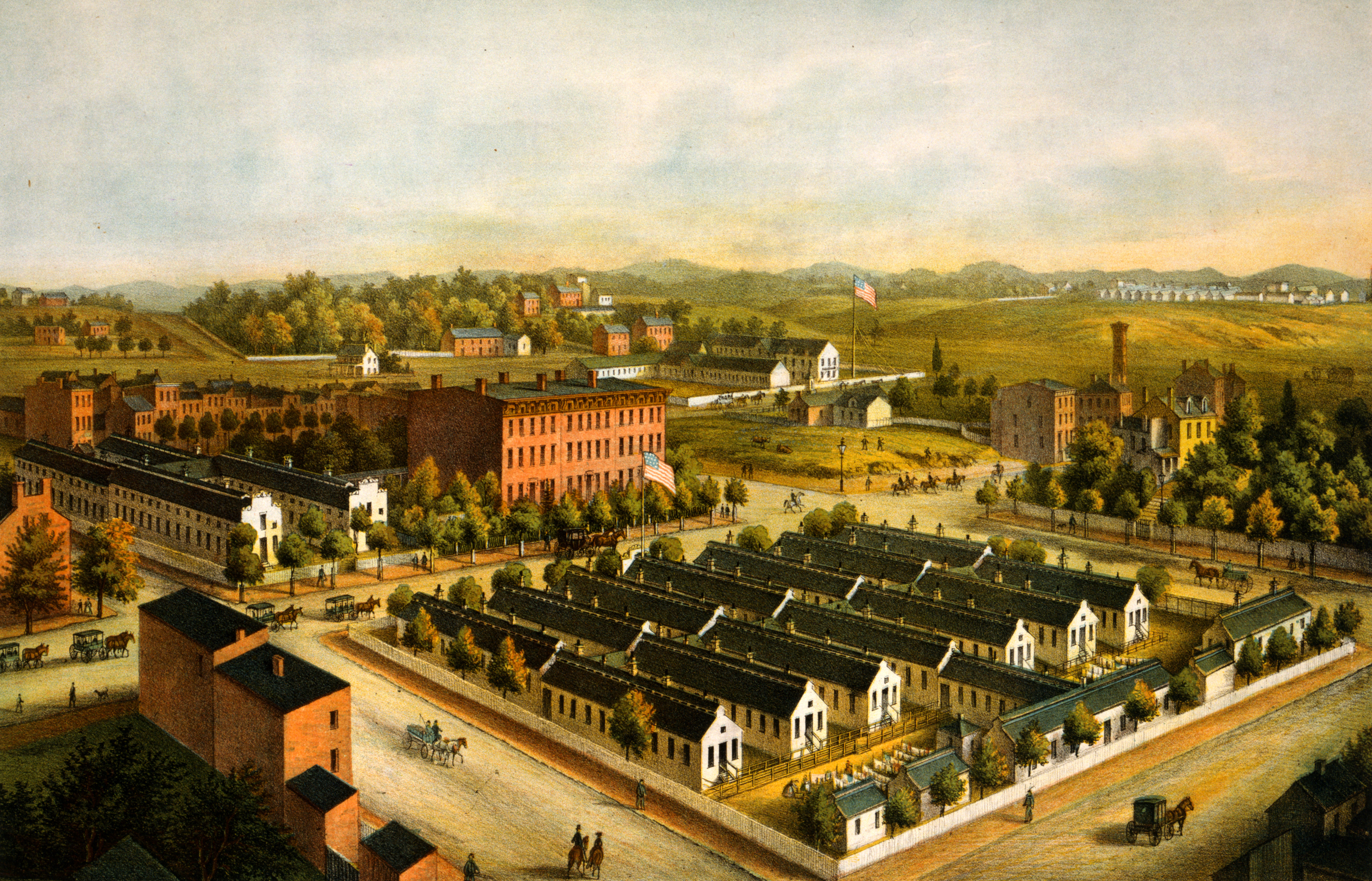 Douglas Row (center), three elaborate homes built in 1856 that were used as a hospital during the American Civil War, and Stanton Hospital, one of the largest temporary Civil War hospitals in Washington, D.C. The buildings were located in the present-day Mount Vernon Triangle neighborhood of Washington, D.C.